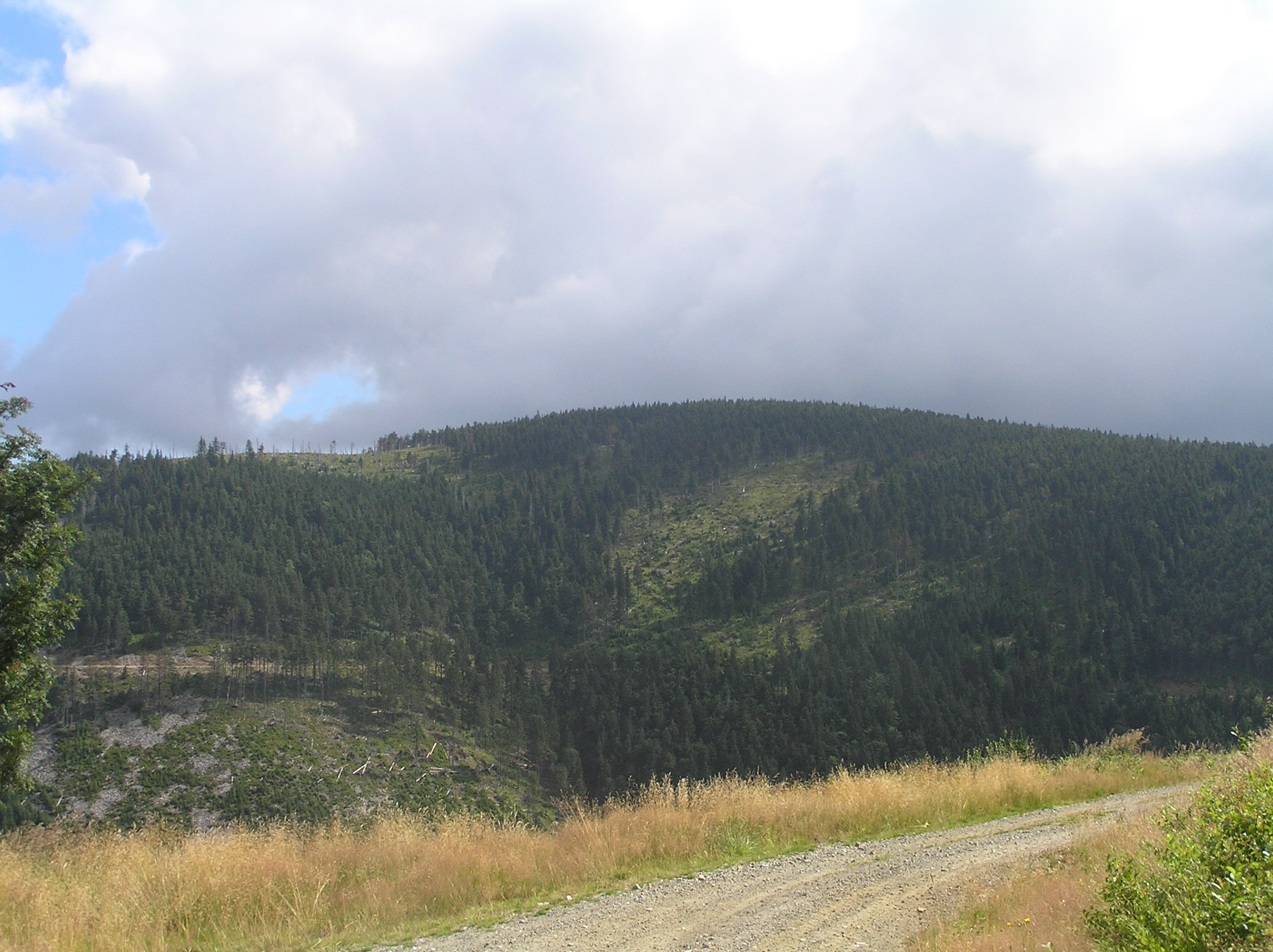 Podbělka (1307 m) is the mountain near the the town Králíky, the Králický Sněžník Mountains, Czech Republic